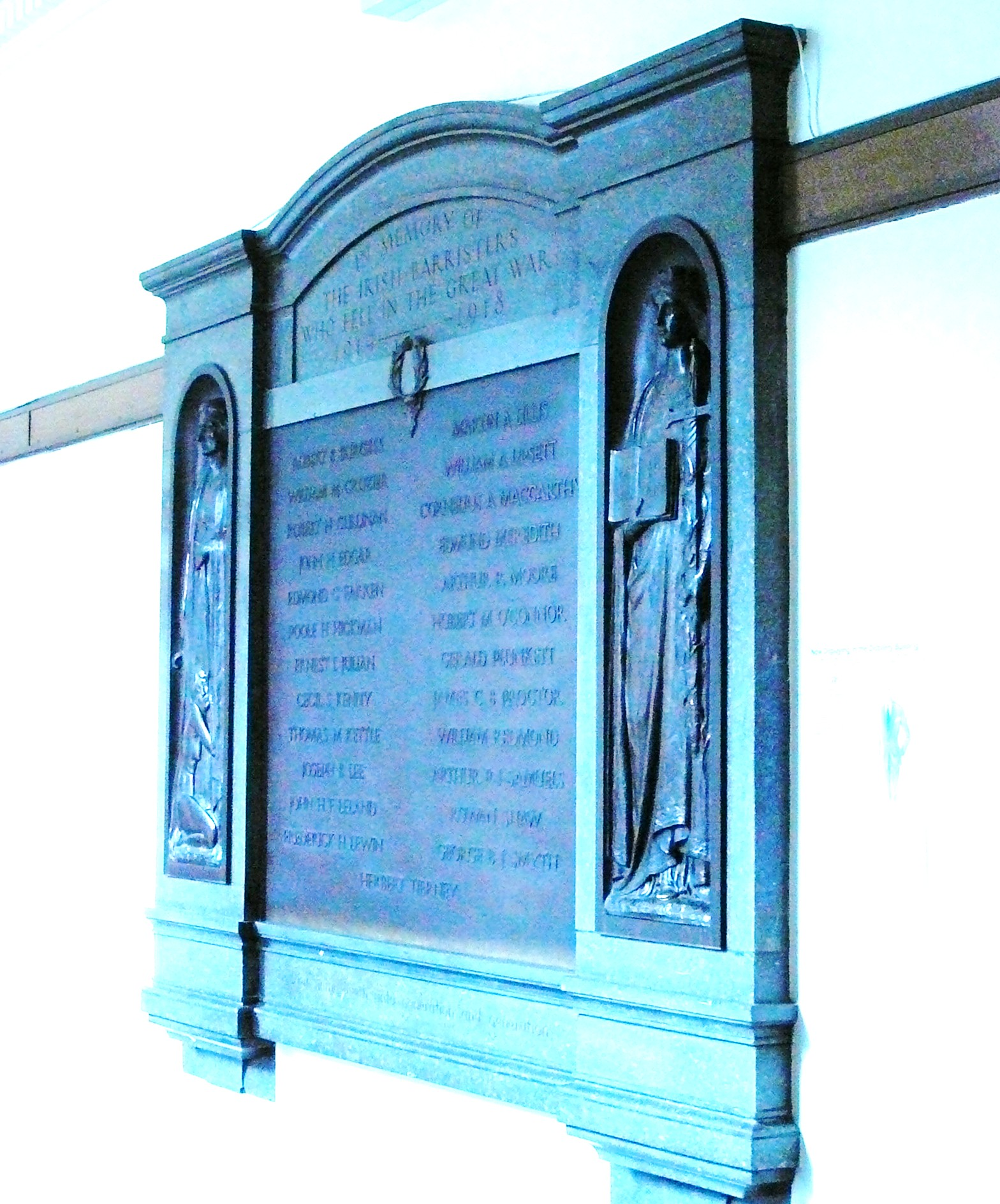 Image of a Great War bronze cast commemorative plaque inside the central Four Courts of Justice in Dublin, Ireland. It is inscribed with the text: In Memory of the Irish Barristers who fell in the Great War 1914-1918. It lists twenty-four Irish barristers, including Thomas Kettle and Willie Redmond.